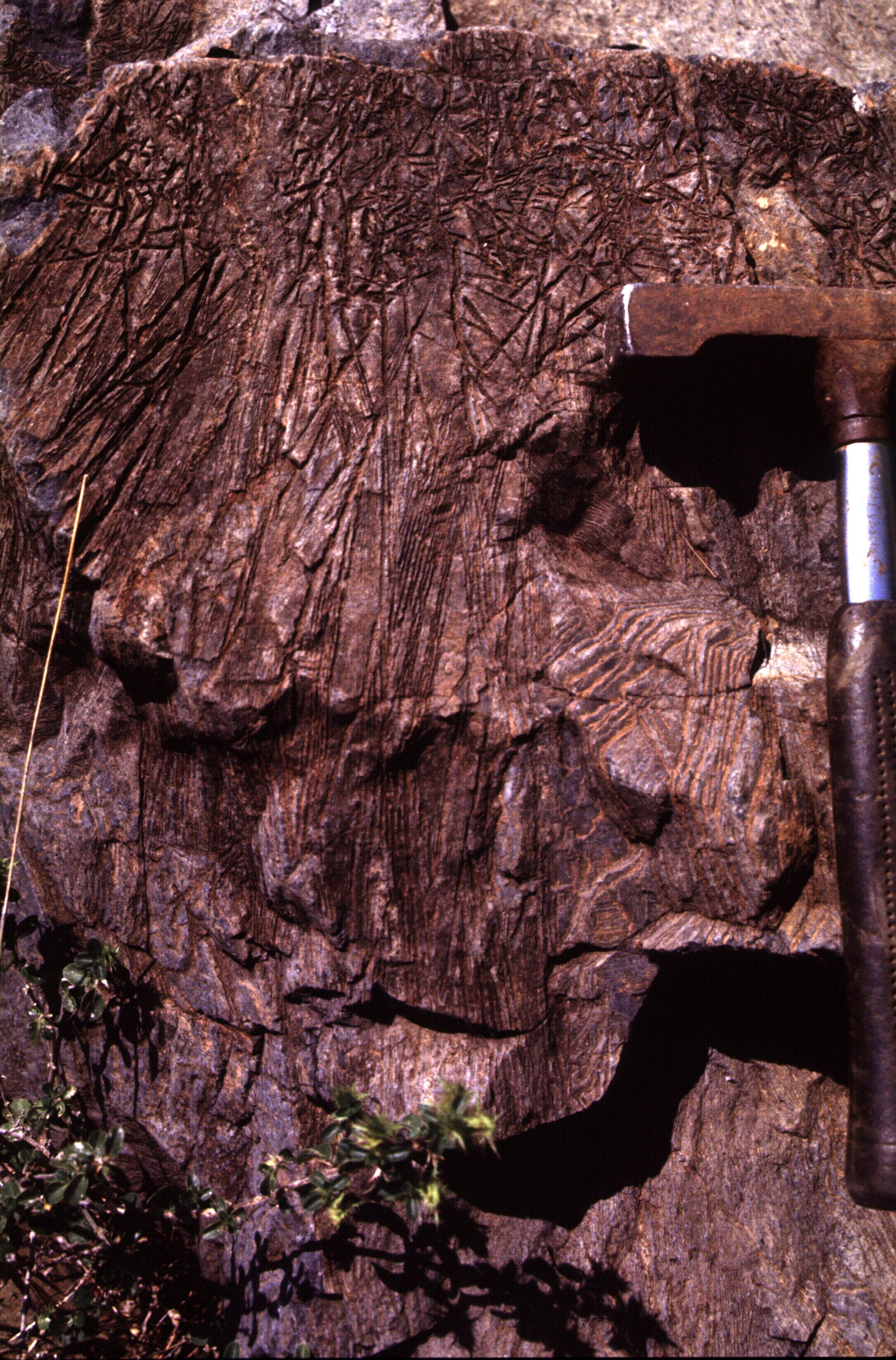 Komatiite lava from the type locality in the Komati Valley, Barberton Mountainland, South Africa, showing the distinctive "spinifex texture" formed by dendritic plates of olivine. The plates are smaller and more randomly oriented towards the top of the flow, at the top of the image.